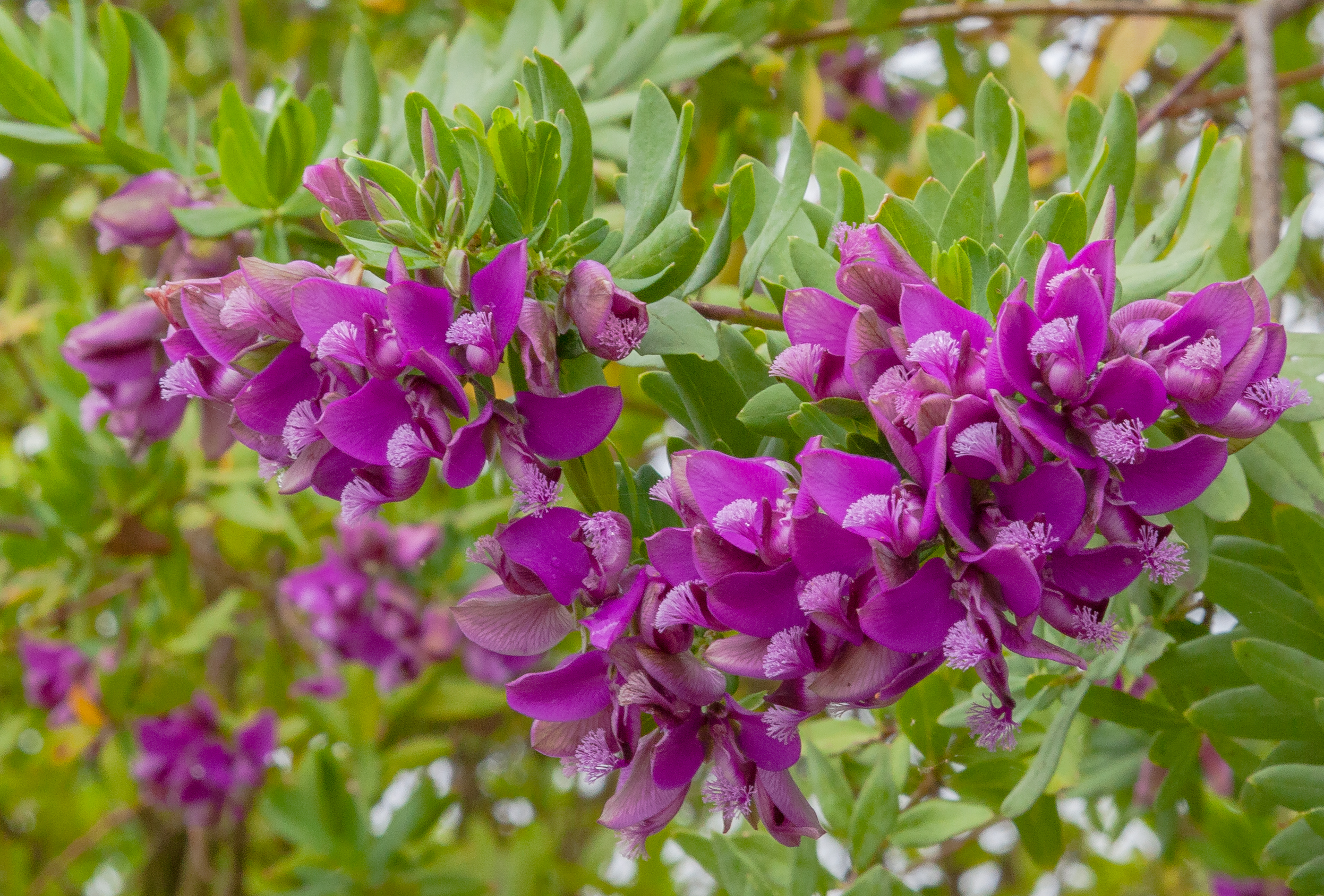 Milkwort (Polygala myrtifolia), Setubal, Portugal